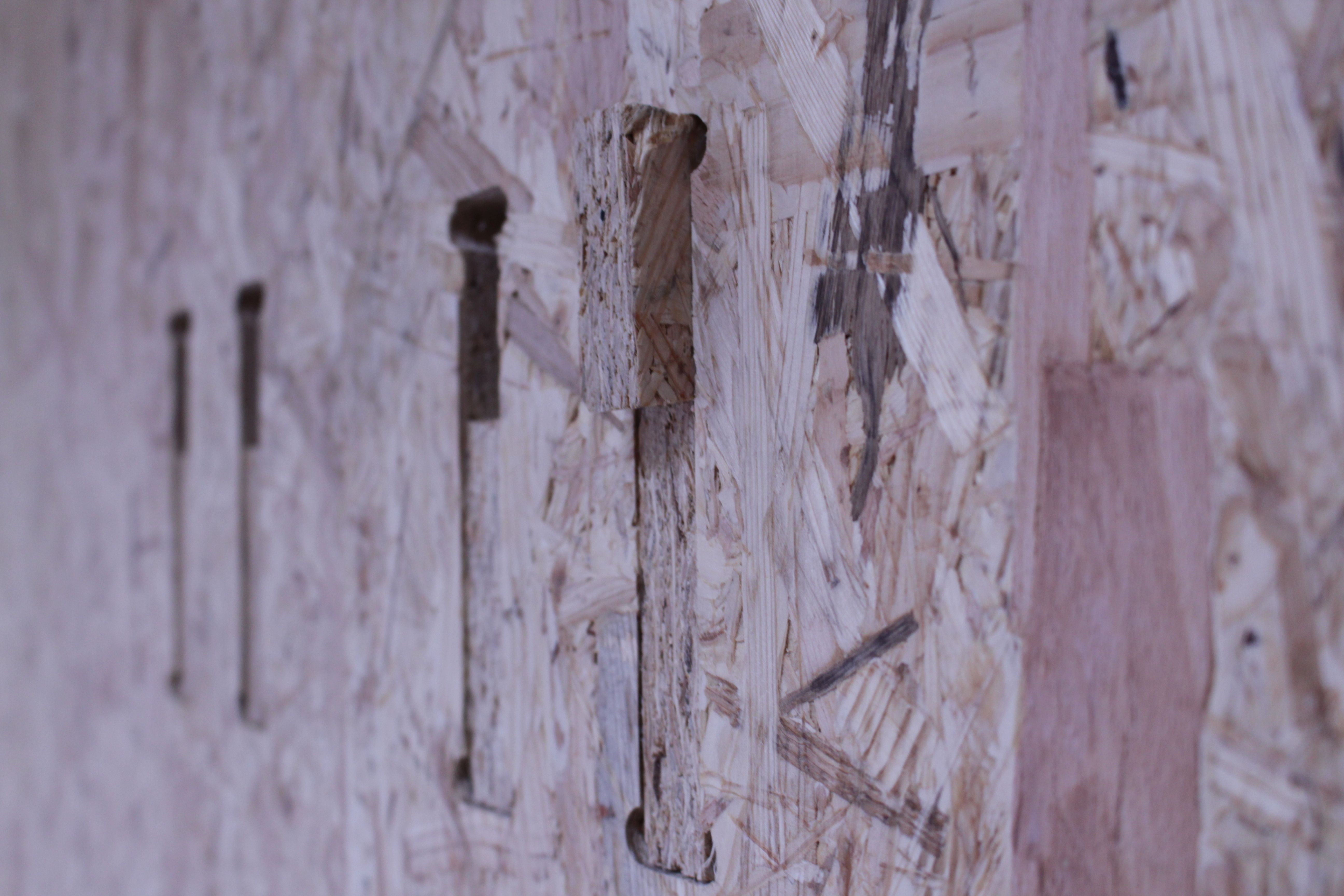 WikiHouse @ ViennaOpen 2015